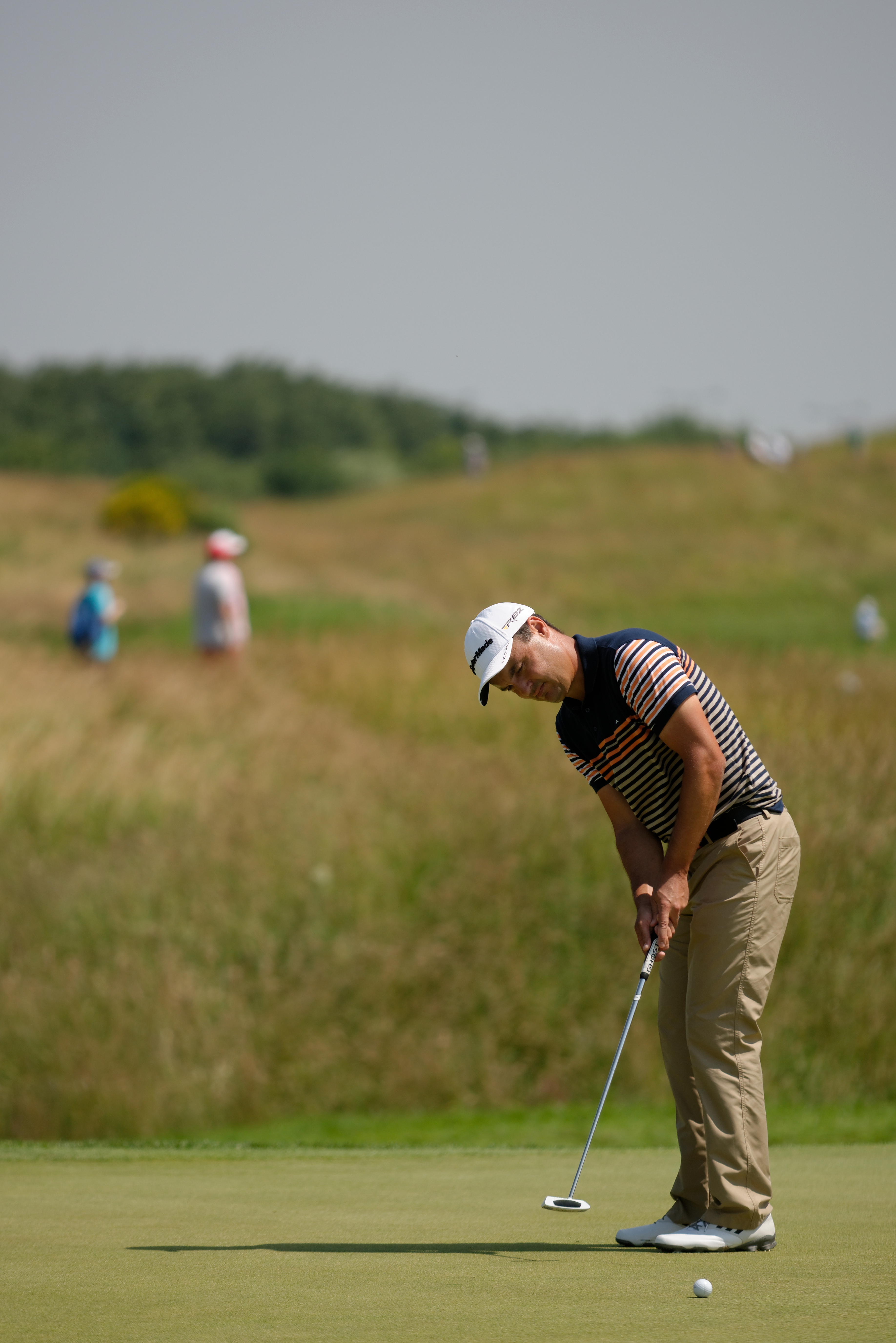 England's Simon Khan putts on the 10th hole during round 3 of the French Golf Open at the Golf National in Saint Quentin en Yvelines, Saturday July 6th 2013.